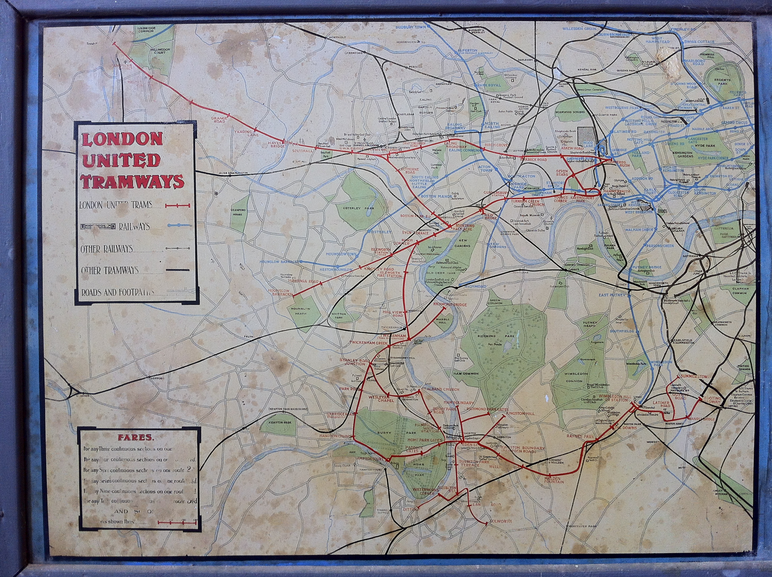 Map of London United Tramways on display at the National Tramway Museum